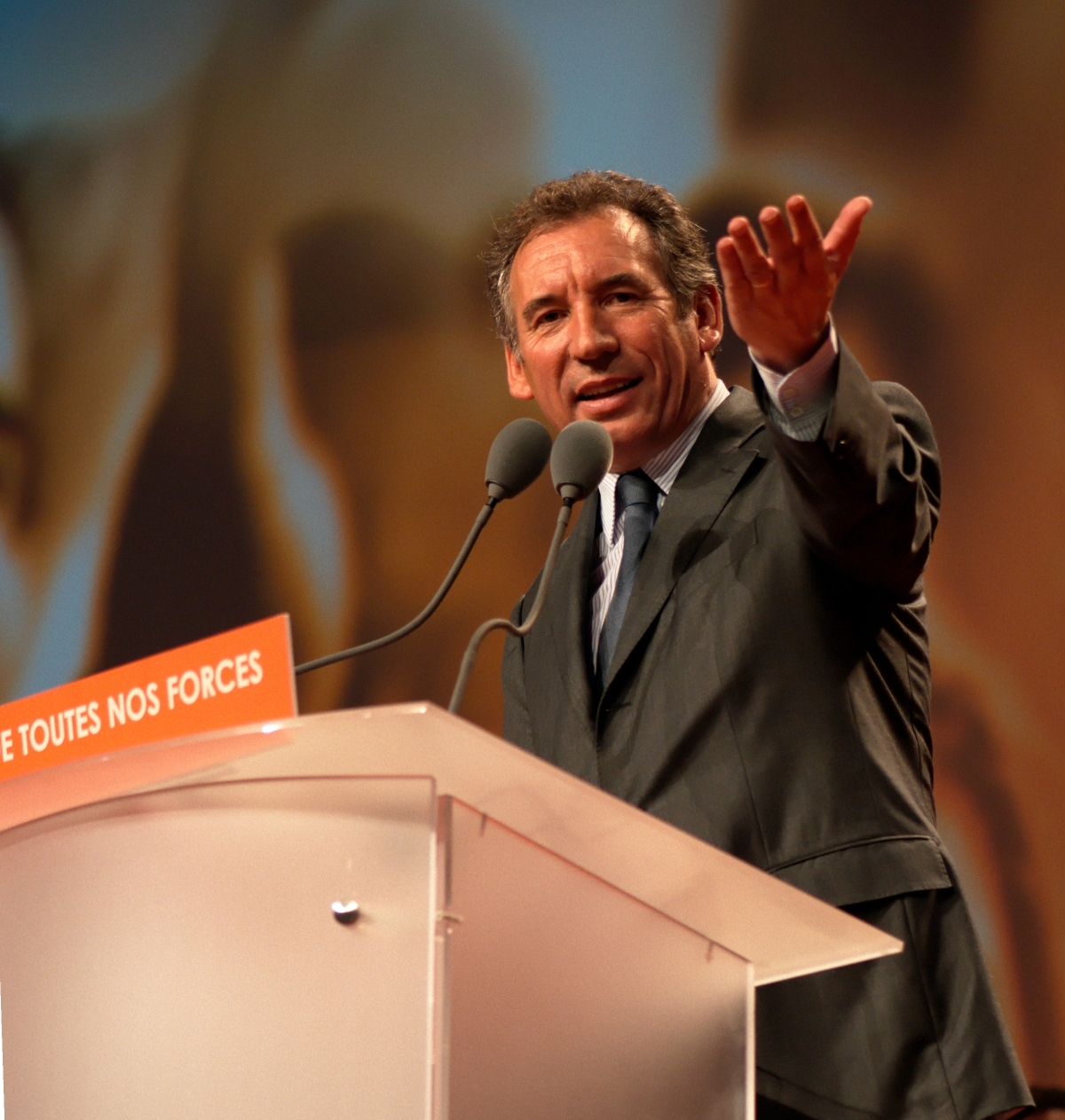 François Bayrou at the meeting held on Apr. 18, 2007 at Paris Bercy.